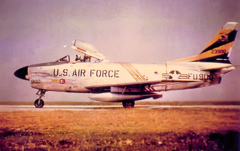 440th Fighter-Interceptor Squadron - North American F-86D-45-NA Sabre - 52-3900